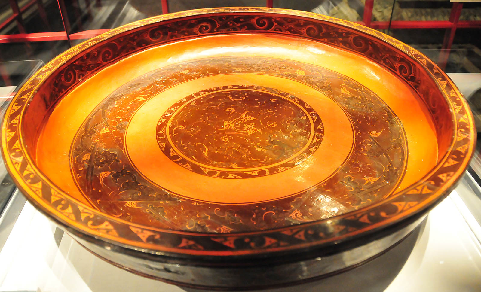 A Chinese Han Dynasty lacquer tray from the art collection at the Capital Museum in Beijing